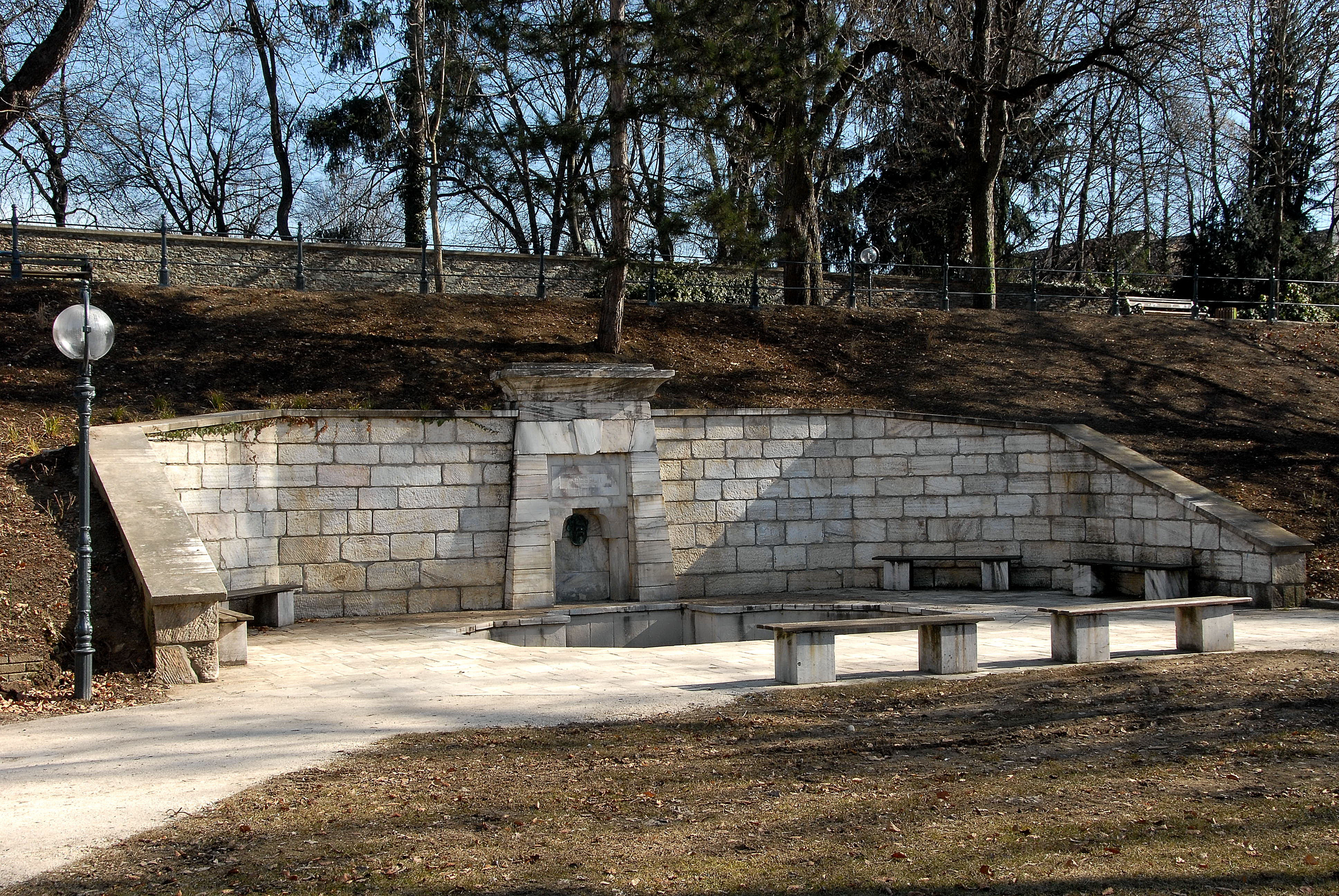 "Fluderbrunnen", designed and built by Domenico Venchiarutti in 1859 (was primarily posted in front of the Stadthaus on Theaterplatz #3, 1984/85 placed to the Schillerpark) on Villacher Ring, statutary city Klagenfurt, Carinthia, Austria, EU